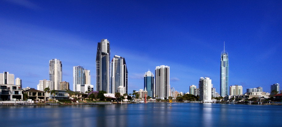 Skyline of Surfers Paradise, Queensland, October 2011